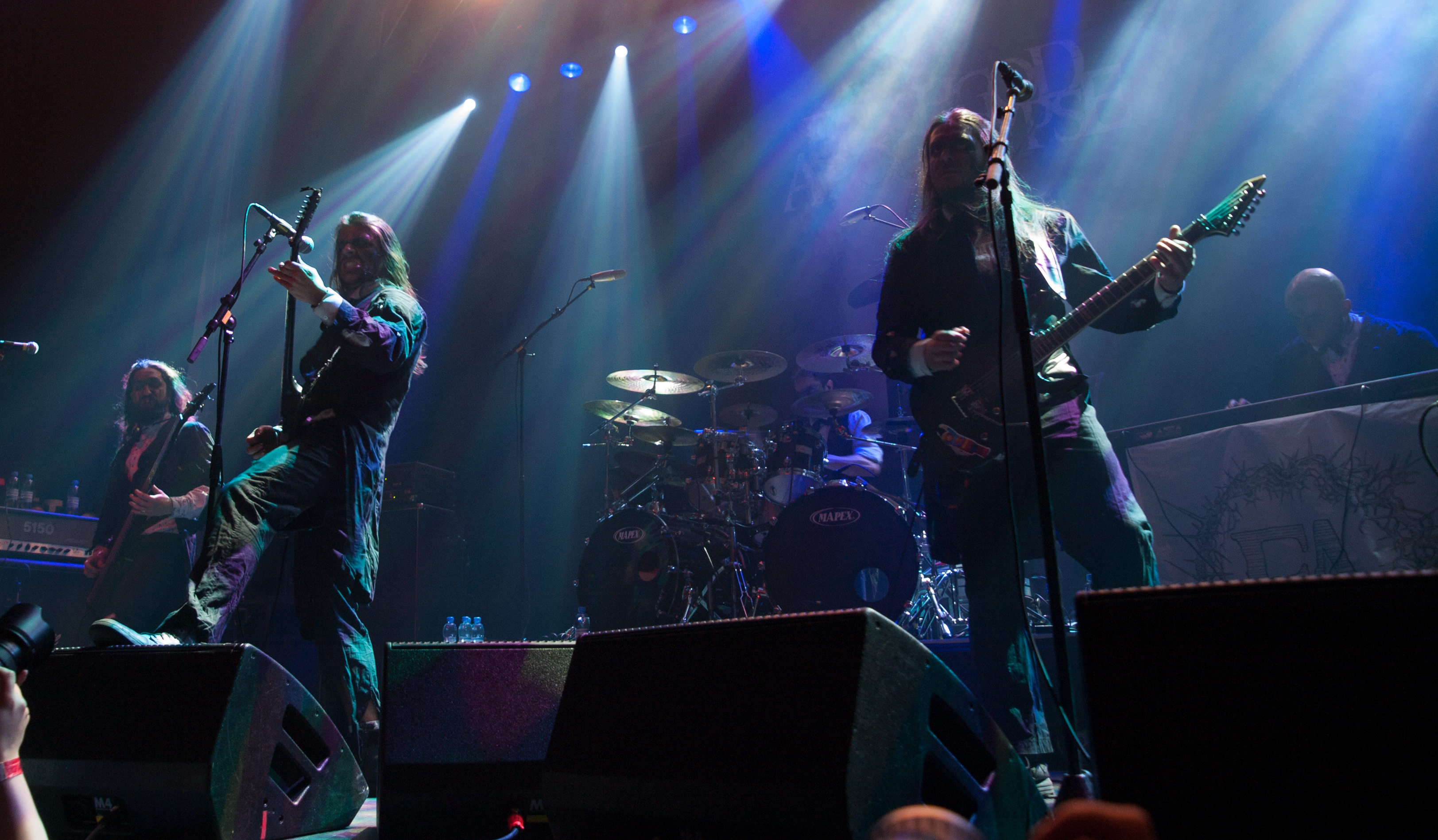 Fleshgod Apocalypse live at Finnish Metal Expo 2012 in Helsinki